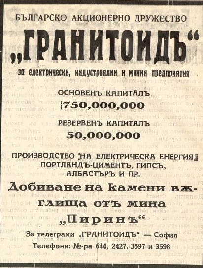 Granitoid, Bulgaria